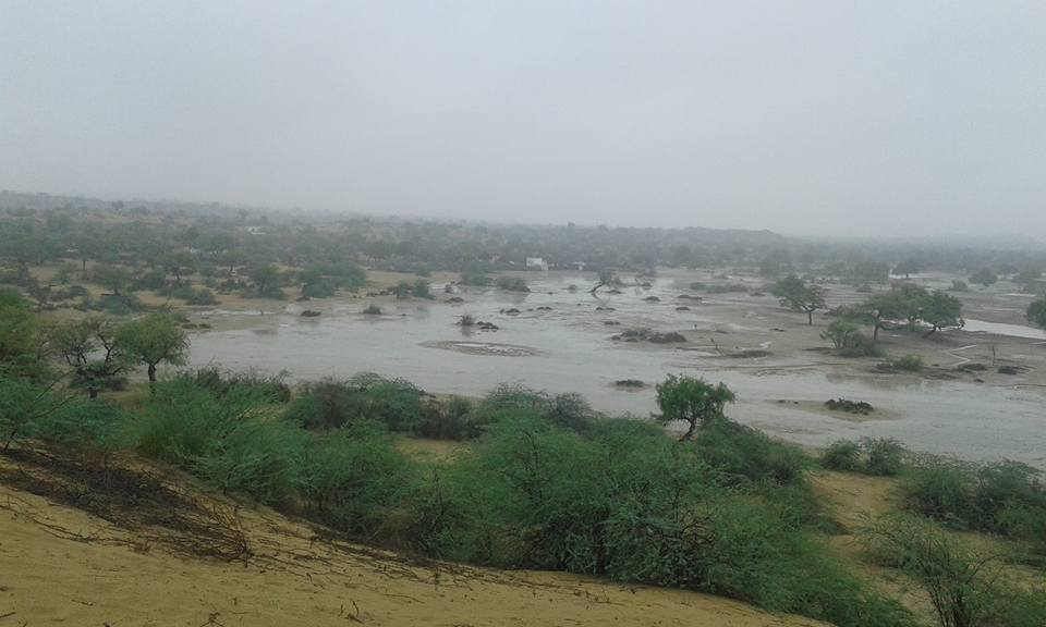 This is photo of kertee village after rain.